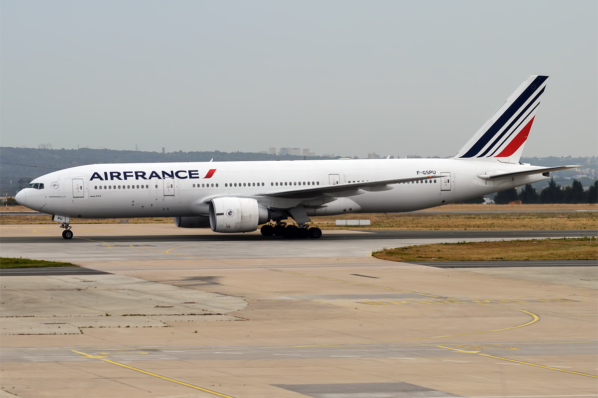 Air France, F-GSPU, Boeing 777-228 ER